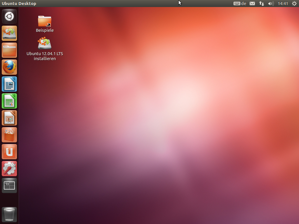 Desktop of an Ubuntu live session